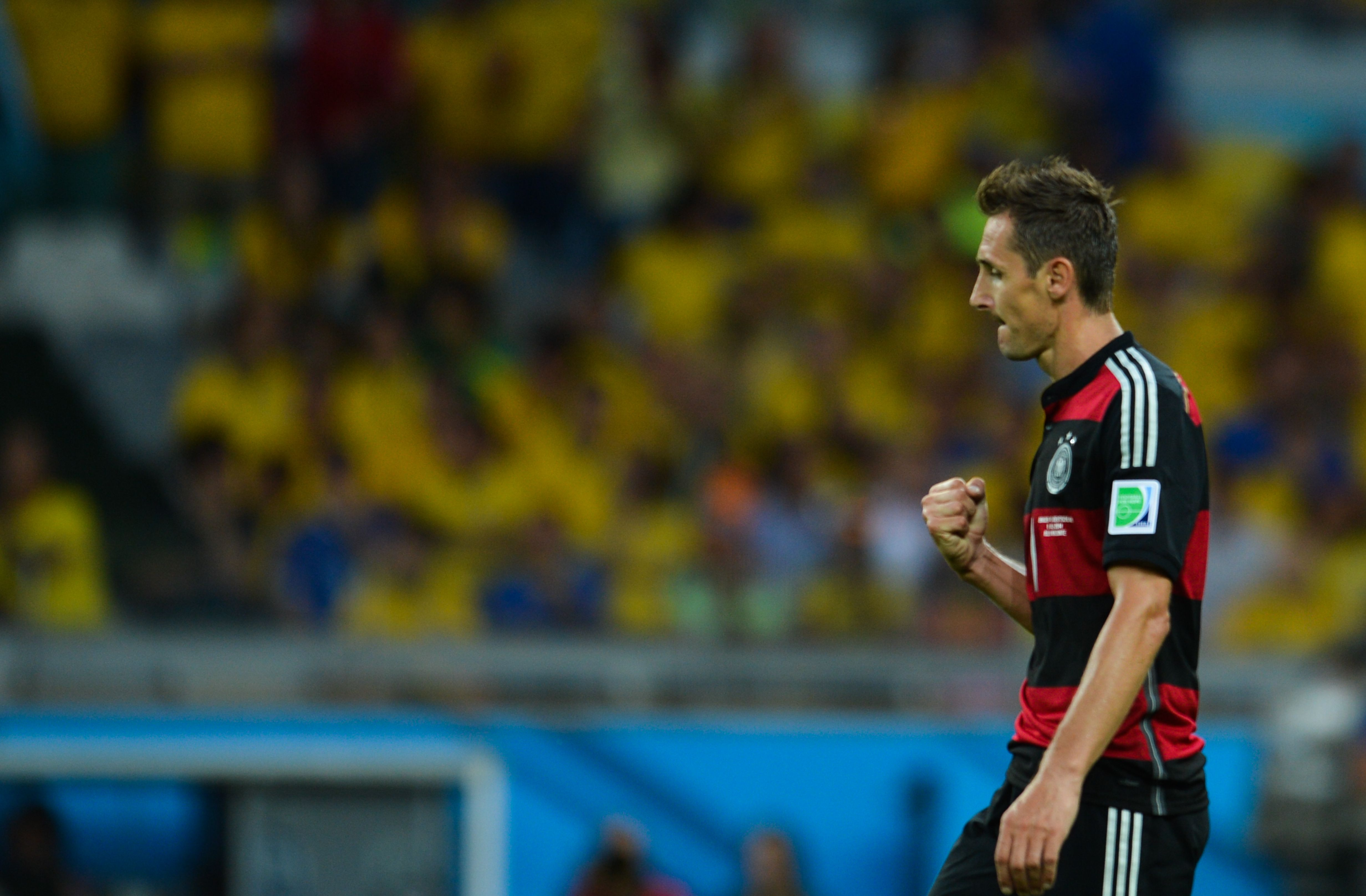 Brazil vs Germany, in Belo Horizonte